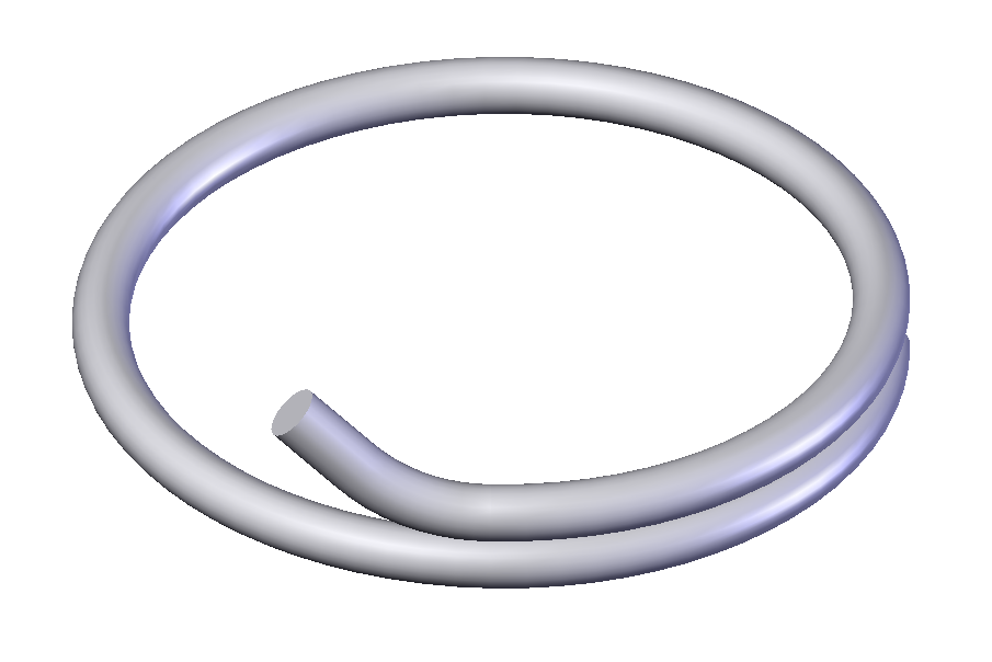 A 3D model of a kickout ring; a type of circle cotter.